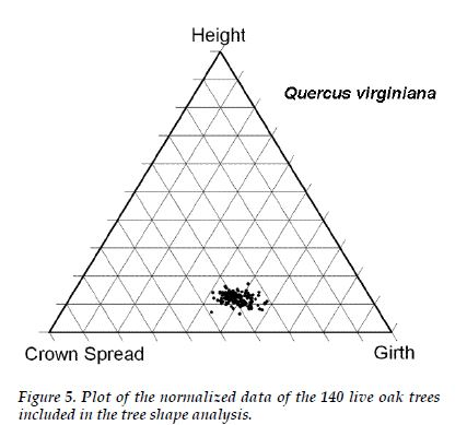 Ternary diagram plotting the shape of live oak trees based upon crown spread, girth and height